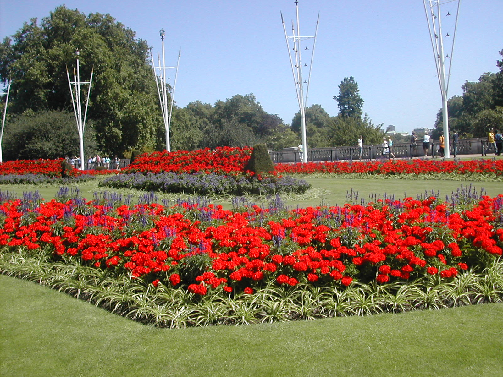 Front of Buckingham Palace